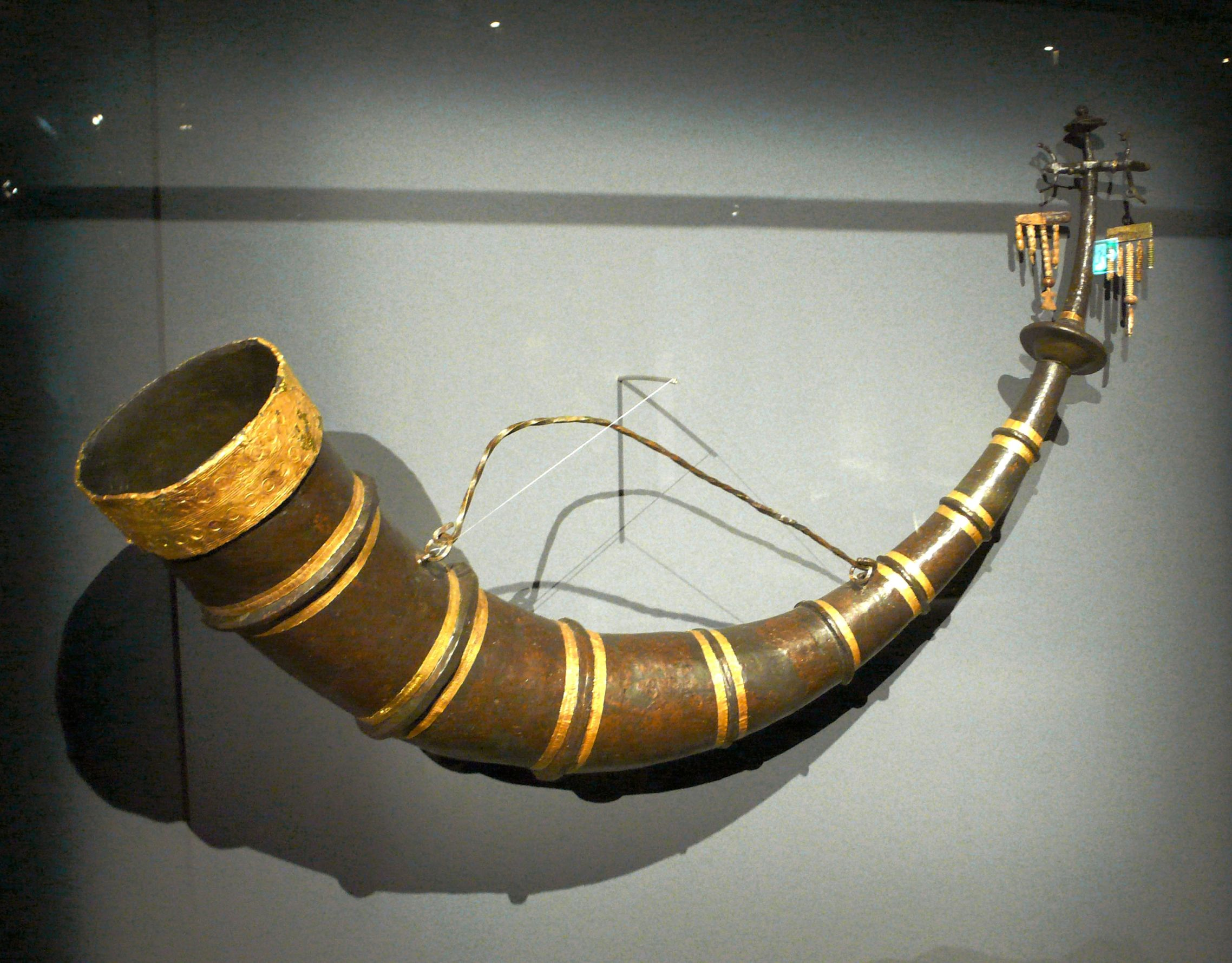 Hochdorf Chieftain's Grave, Germany. Camera: Panasonic DMC-LX2 License on Flickr (2011-03-05): CC-BY-2.0 Flickr tags: summer, 2009, july, europe, bern, switzerland, museum, ancient About 530 BC The Hochdorf Chieftain's Grave is a richly-furnished burial chamber. Regarded as the "Tutankamon of the Celts", it was discovered in 1977 near Hochdorf an der Enz in Baden-Württemberg, Germany). A man of 40 years old, 6 ft 2 in (178 cm) tall was laid out on a bronze couch. He had been buried with a gold-plated torc on his neck, a bracelet on his right arm, and most notably, thin embossed gold plaques were on his now-disintigrated shoes. At the foot of the couch was a large cauldron decorated with three lions around the brim. The east side of the tomb contained a four-wheeled wagon holding a set of bronze dishes - enough to serve nine people. This horn has a capacity of 5.5 litres, which was enough to get suitably inebriated. It's the largest and most precious drinking horn, specially reserved for the host. The iron was forged into the shape of a horn and decorated with shear gold. The tip was adorned with beads made of bones. Kunst der Kelten, Historisches Museum Bern. Art of the Celts, Historic Museum of Bern.